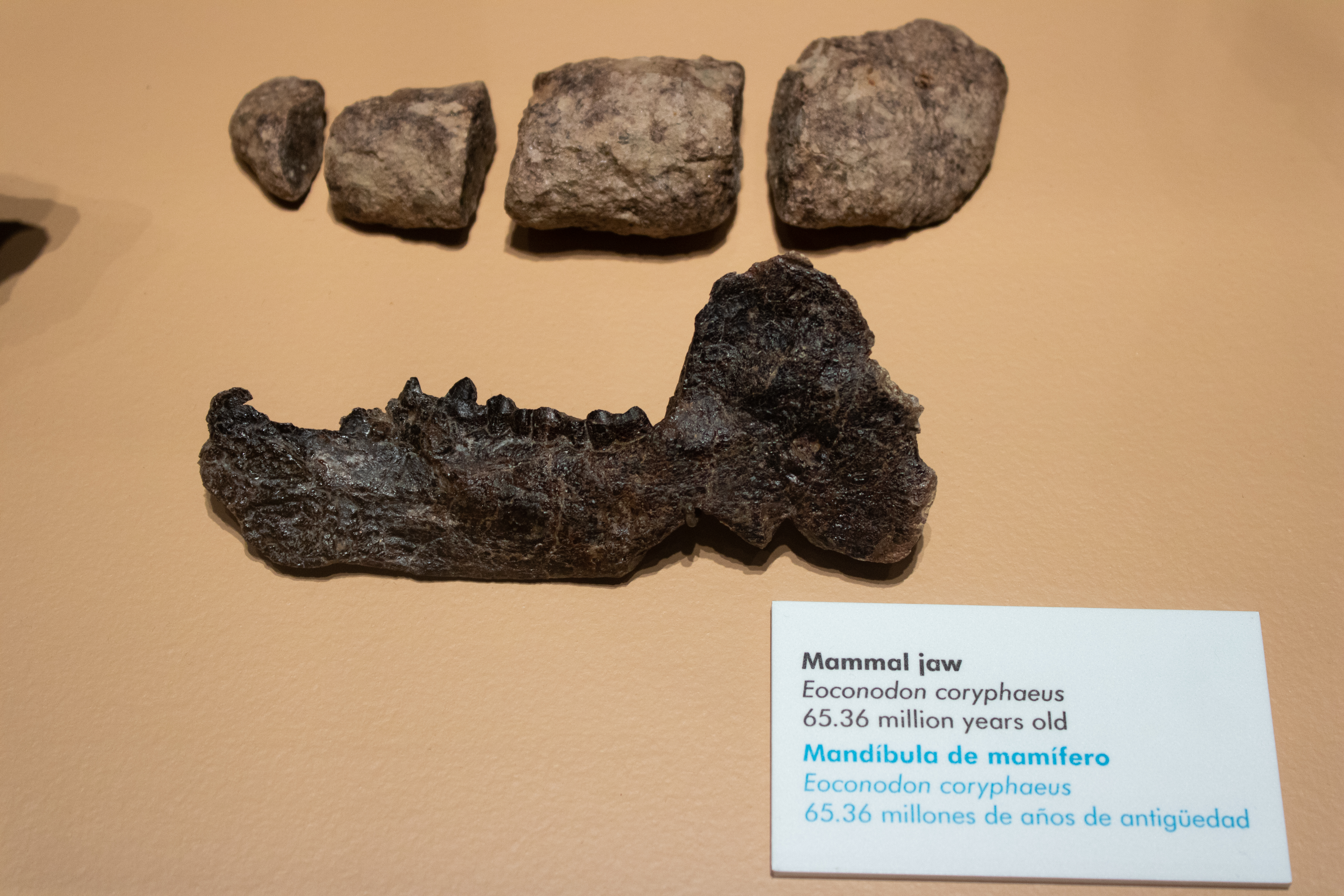 A new exhibit of mammal fossils, and other kinds, found from above the K-T Boundary at the Denver Museum of Nature and Science. Denver, Colorado.